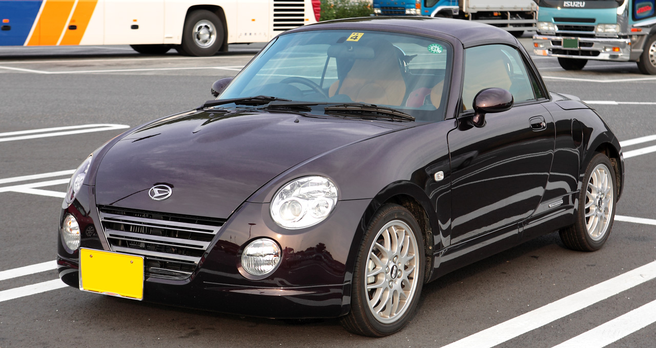 Daihatsu Copen 660 Ultimate Edition II